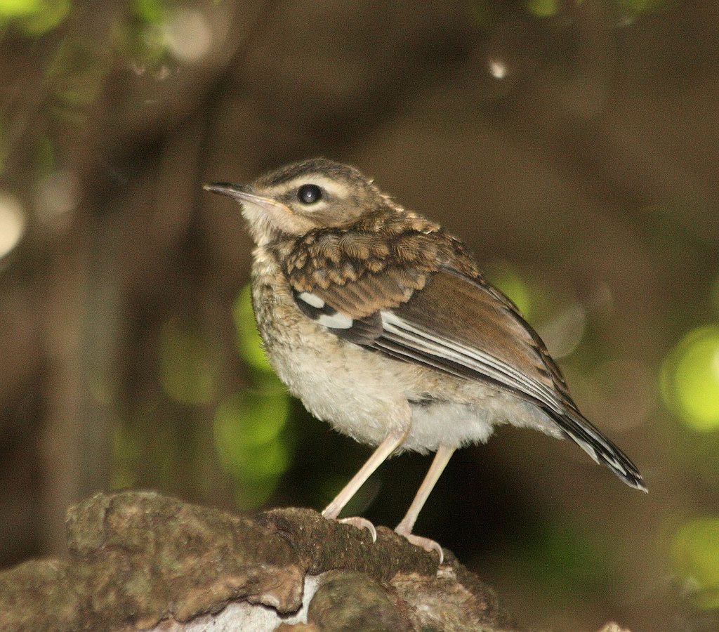 Immature Brown Scrub-robin (Erythropygia signata). Location: Mkhuze Game Reserve, South Africa For more info on this species